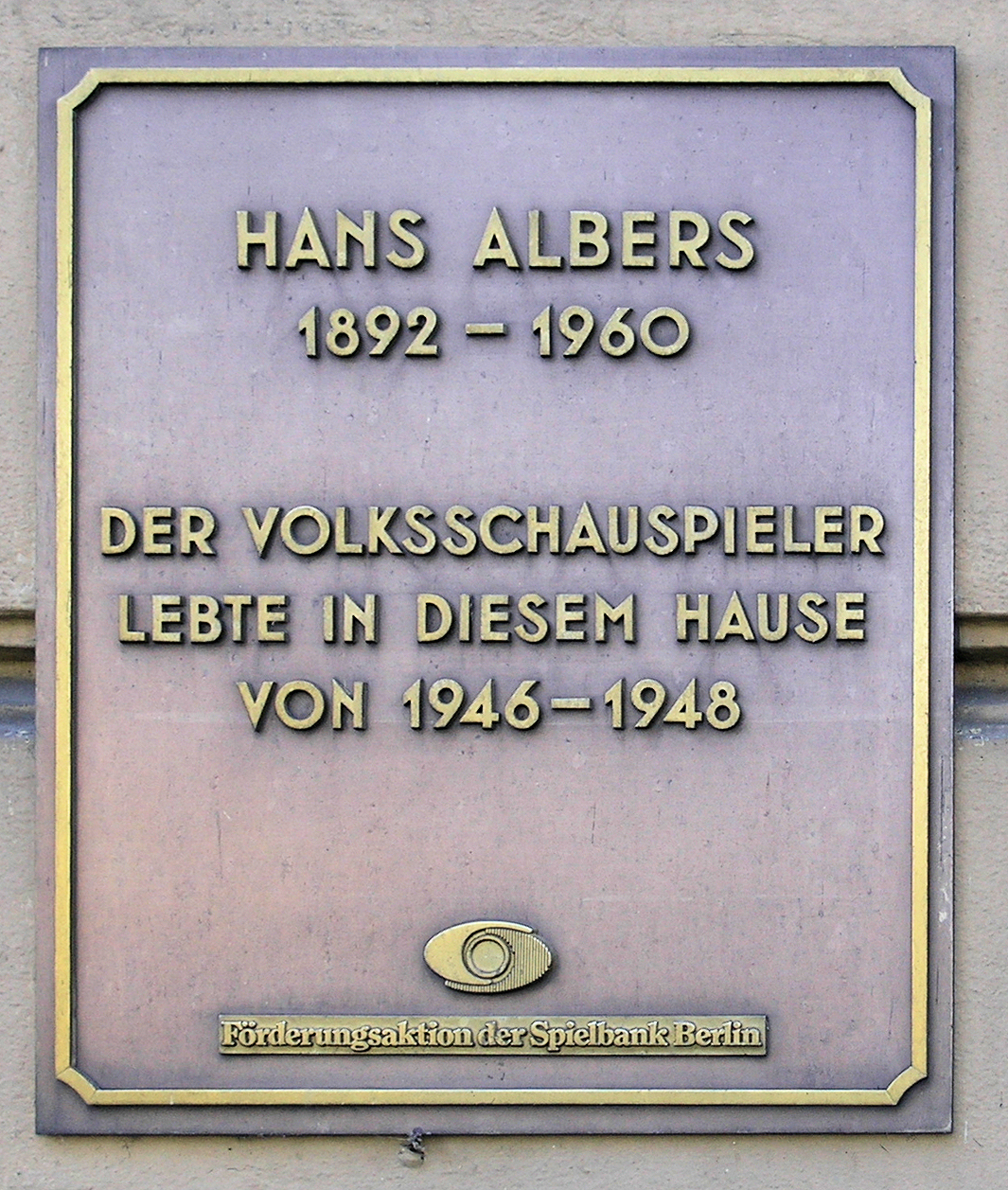 Memorial plaque, Hans Albers, Schöneberger Ufer 61, Berlin-Tiergarten, Germany Koordinate:52°30′20″N 13°21′57″E / 52.50556°N 13.36583°E